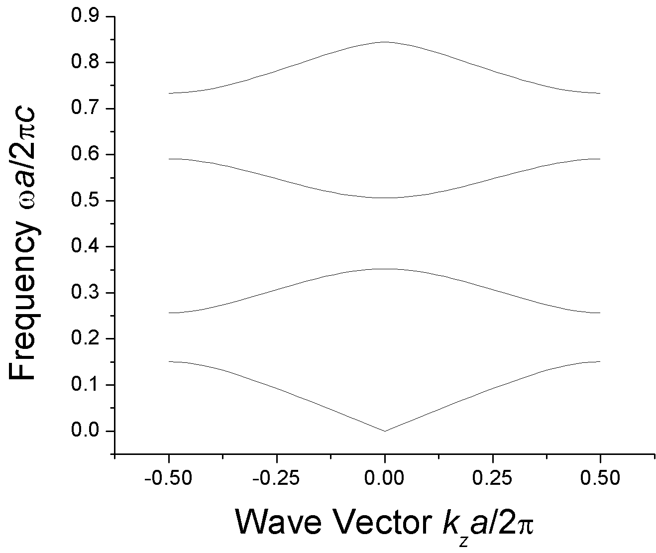 Band structure of a 1D Photonic Crystal calculated using plane wave expansion technique with 101 planewaves, for d/a=0.5 and dielectric contrast of 13.